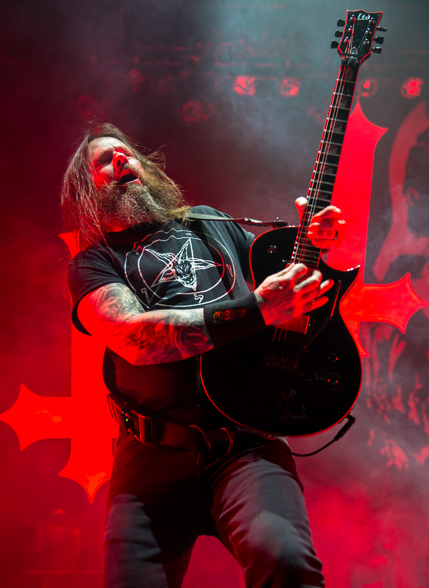 Gary Holt of Slayer performing in Austin, Texas 2014-11-18.